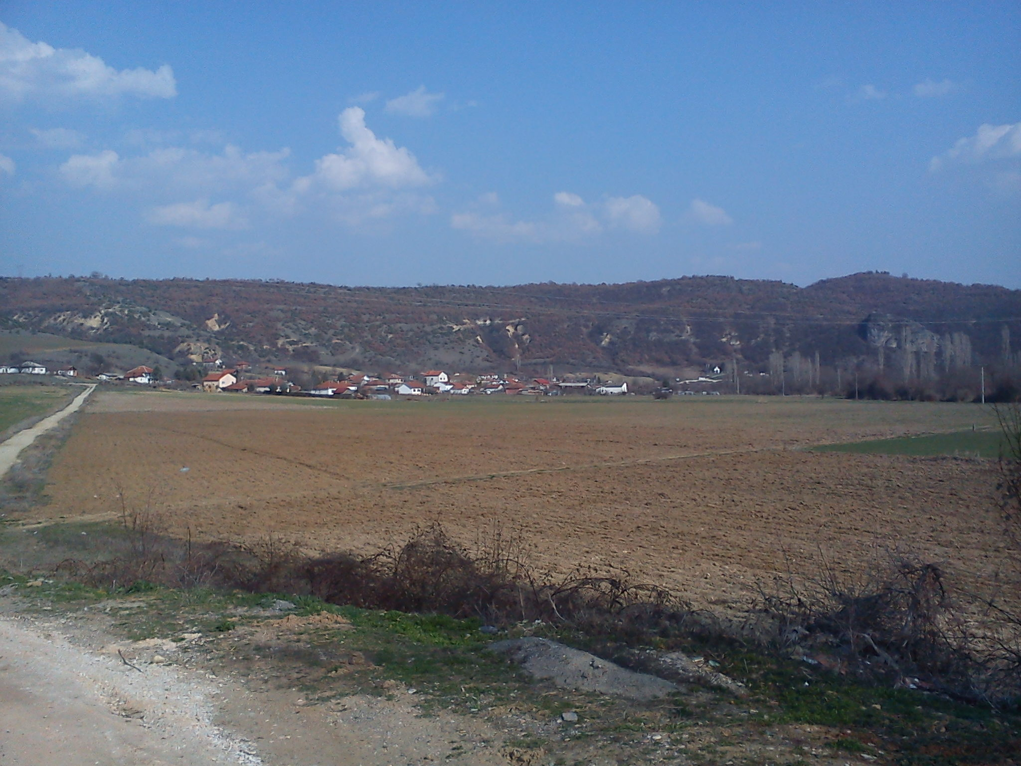 Pakoshevo, Zelenikovo Municipality, Macedonia